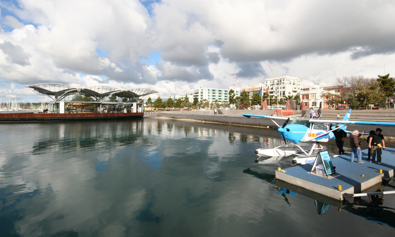 Waterfront at the end of Moorabool Street - Geelong Victoria Australia